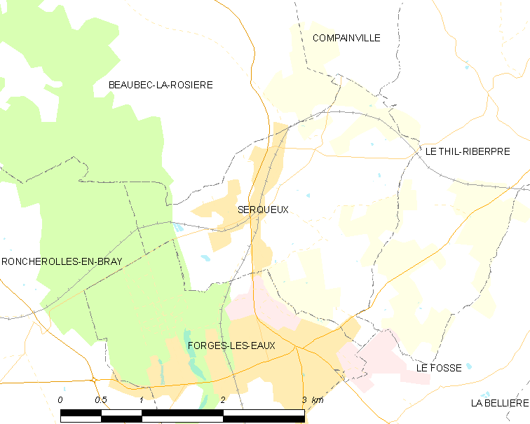 Map of French municipality Serqueux